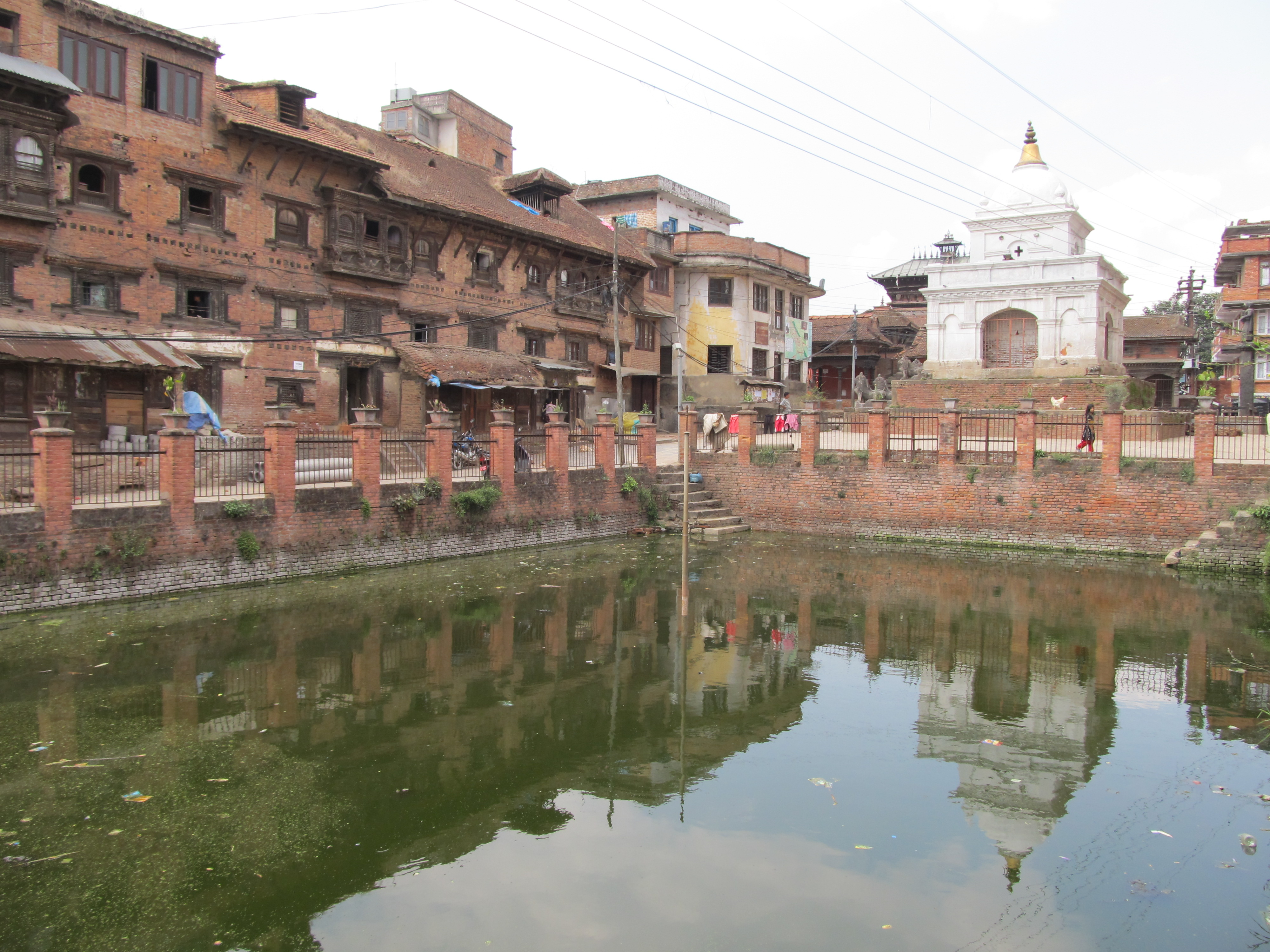 Narayan Temple behind Pokhari (pond), Kirtipur